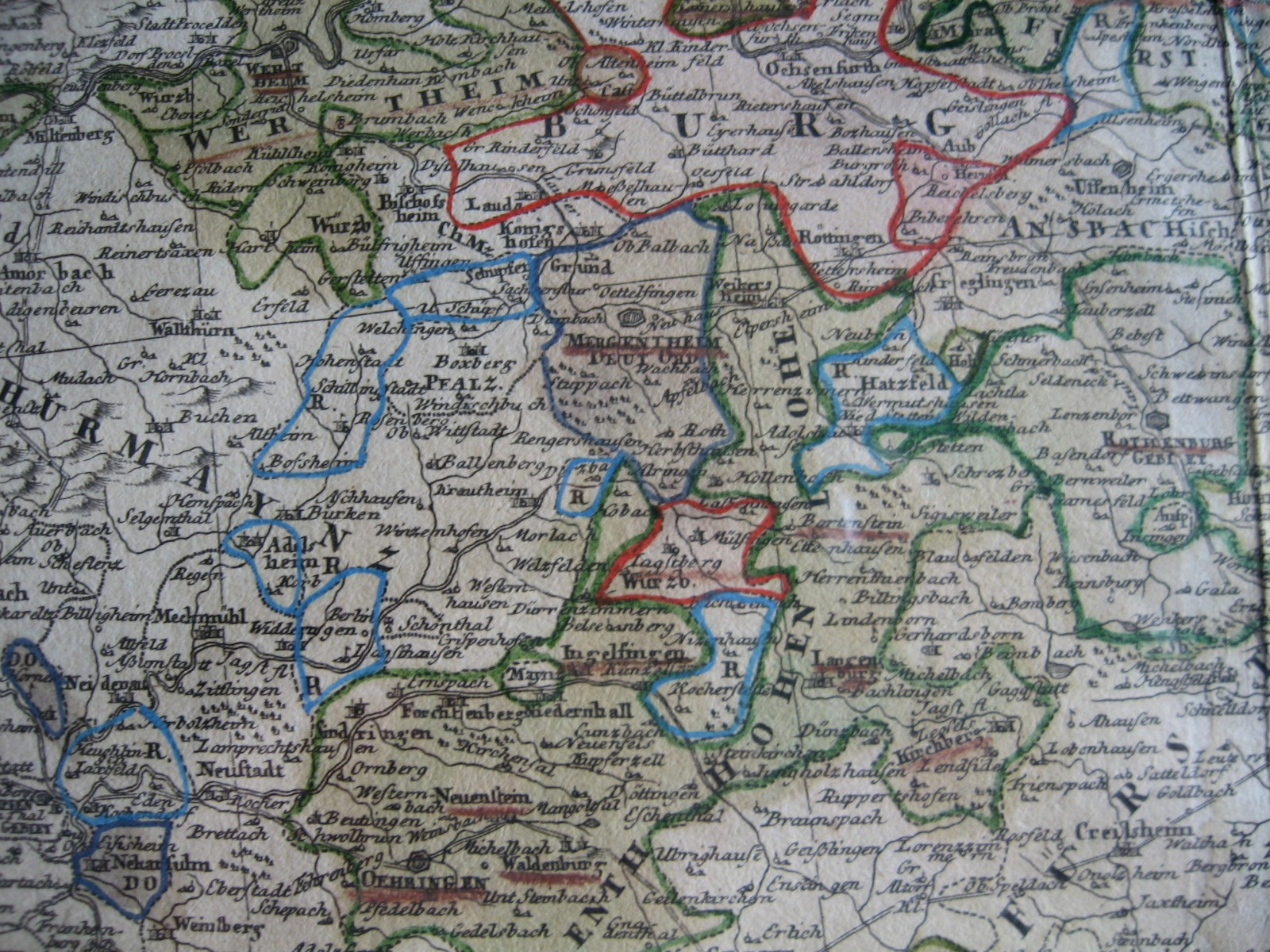 Estates of Imperial Knights (in blue) enclaved within or near the Electorate of Mainz ("R" = Reichsritterschaft (Imperial Knights); "DO" = Deutsche Orden). The territory of Mergentheim and several smaller enclaves belonged to the Teutonic Order (Deutsche Orden). Cropped from a map of the Circle of Franconia published by Homann Heirs in 1782.